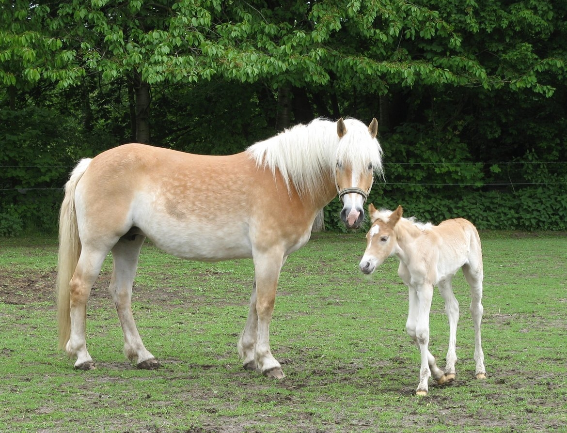 Haflinger mare Antonia with her foal Akira living at "Haflinger Westfalenfleiß Kinderhaus"